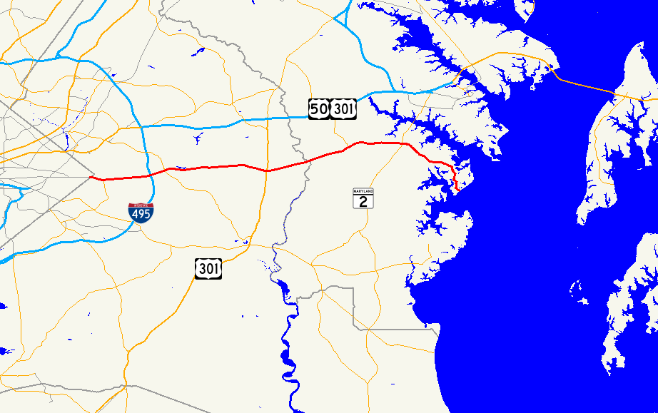 Map of Maryland Route 214